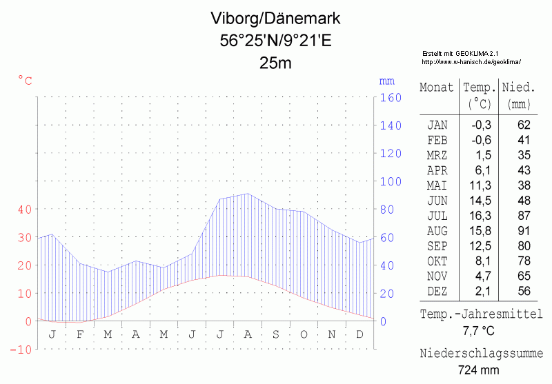 climate chart in the format by Walther and Lieth, metric, °Celsisus and millimeters, made with Geoklima 2.1